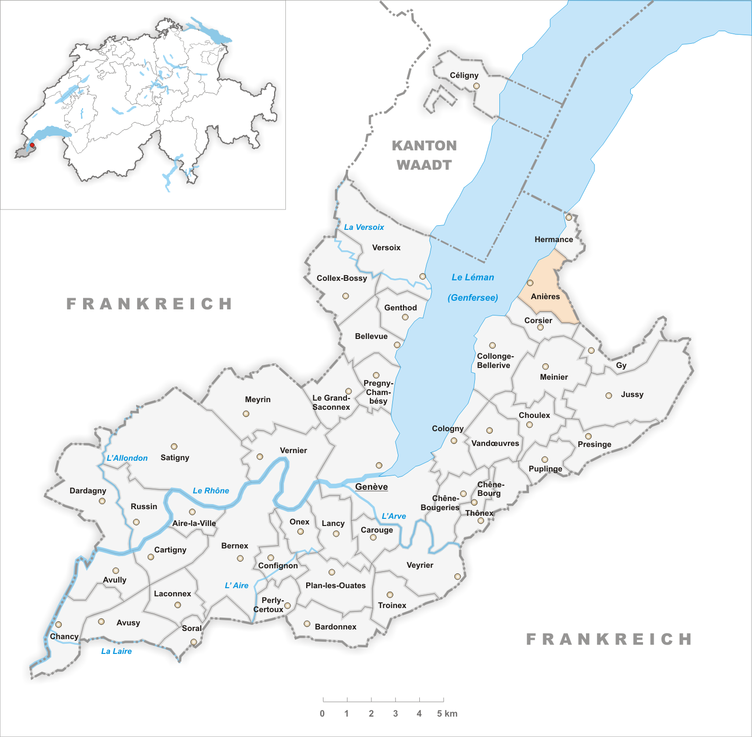 Municipality Anières